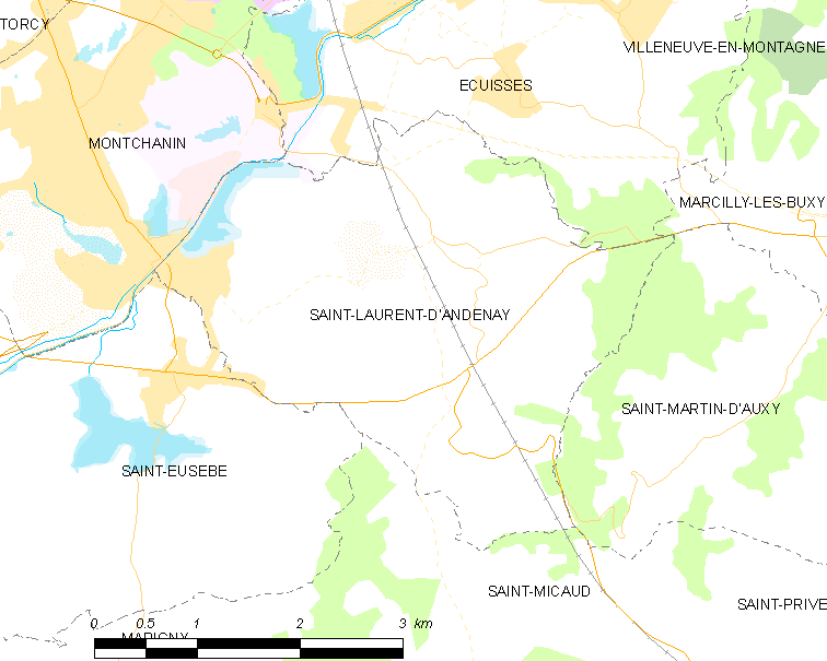 Map of French municipality